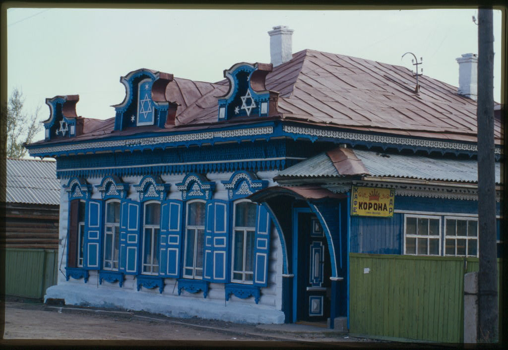 Jewish house and store, Sovetskaia Street (late 19th century), Nerchinsk, Russia